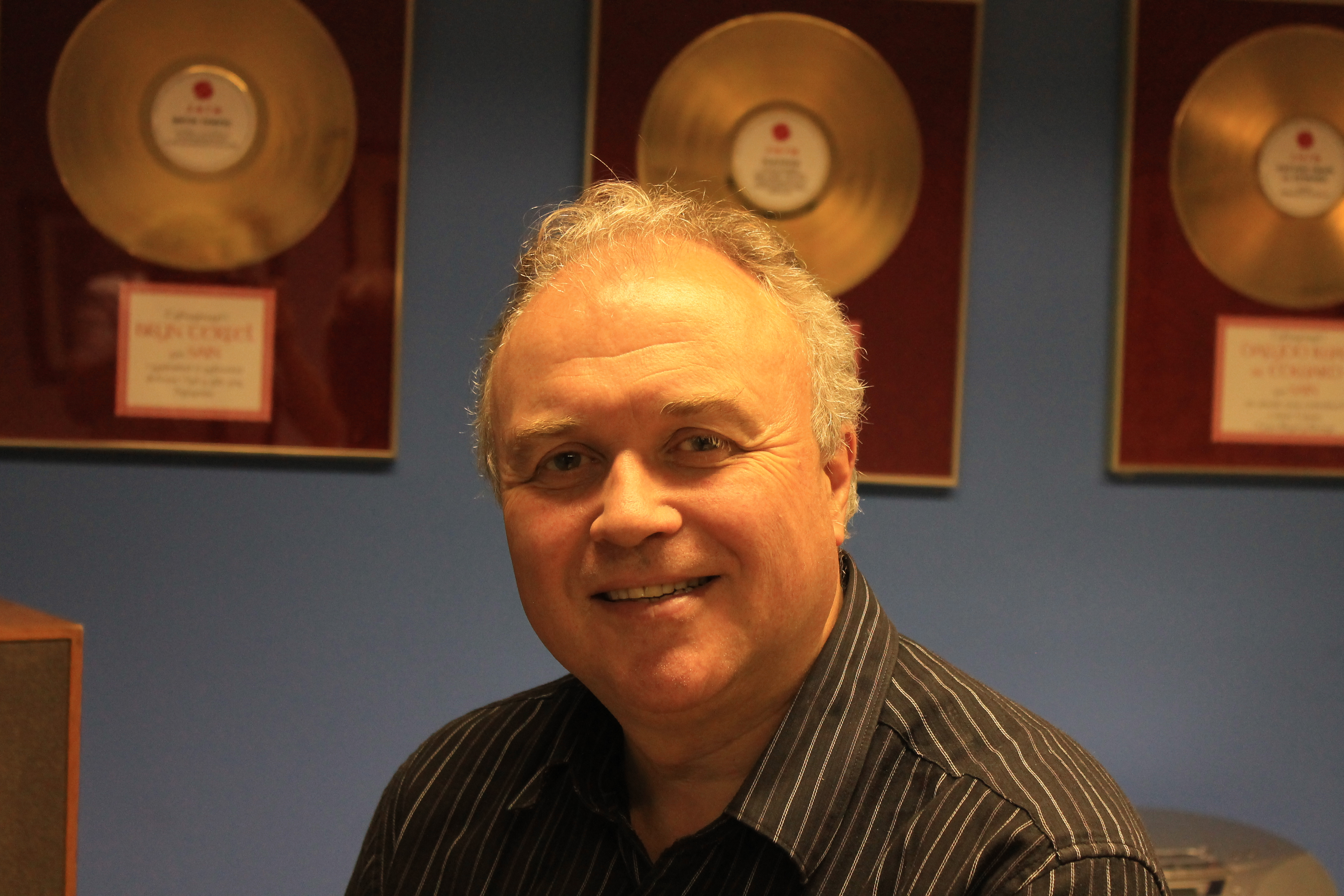 Dafydd Meirion Roberts, Sain Chief Executive; also member of Ar Log.